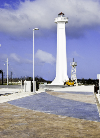 Mahahual Light House